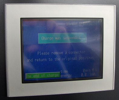 Information screen on a TEPCO - CHAdeMO quick charging station at Vacaville, California (Davis Street and I-80